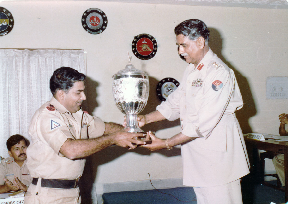 General Muhammad Iqbal Khan and Lt. Col. (later Brig) Hamid Mahmood.